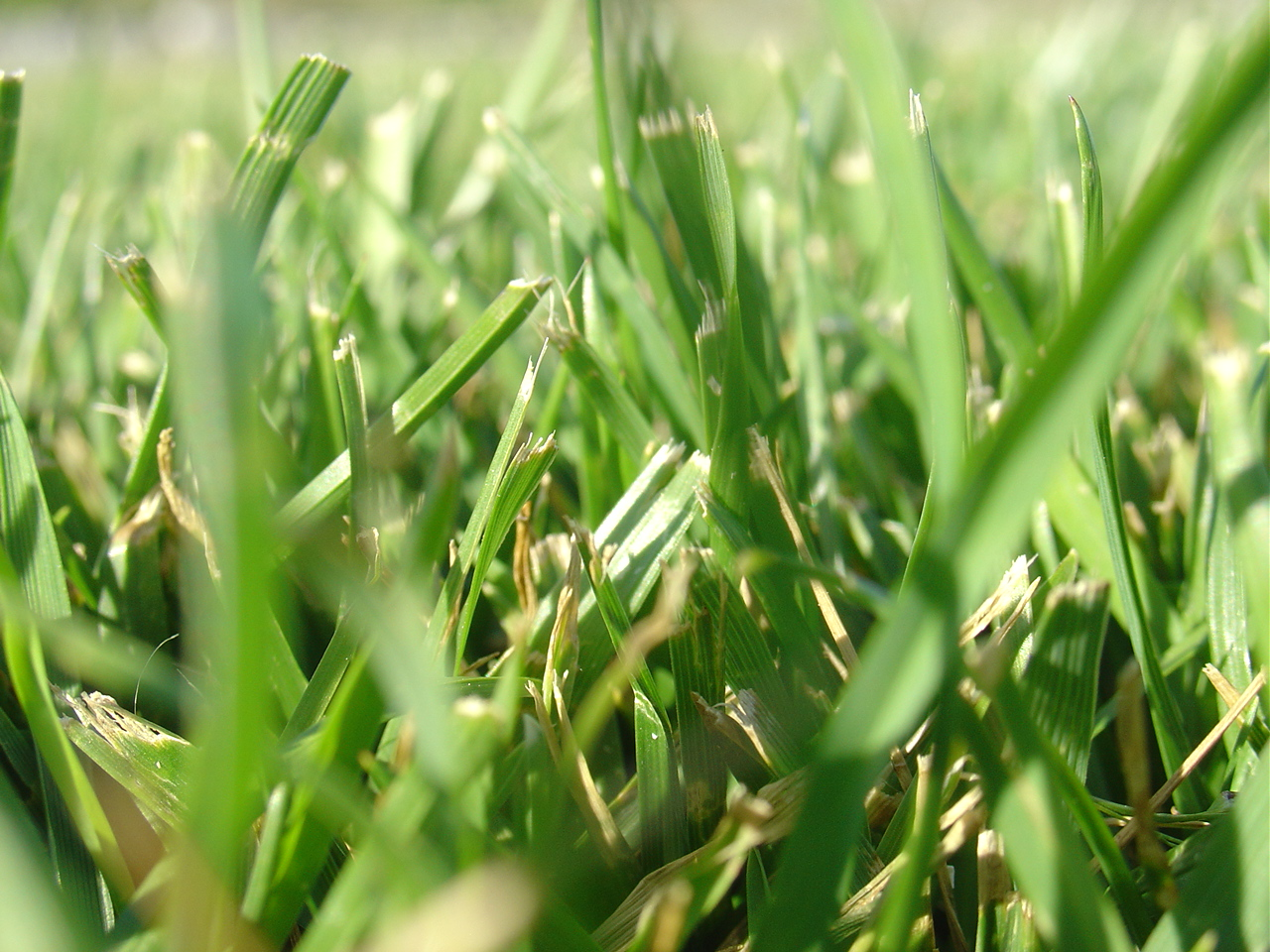 macro shot of blades of grass of which the upper part has been cut of by a mowing machine. It's well visible how they have been mutilated. These blades will eather dye off, or stay like this, whereas the plant will (have to) make new blades.Grass